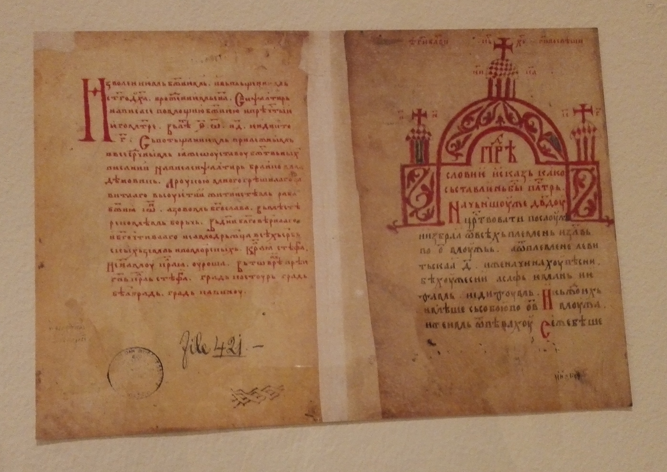 Psalter of Branko Mladenović, Borač in Drenica, 1346 (before April 16), photographs of two pages. The original manuscript in Bucharest, Library of the Romanian Academy